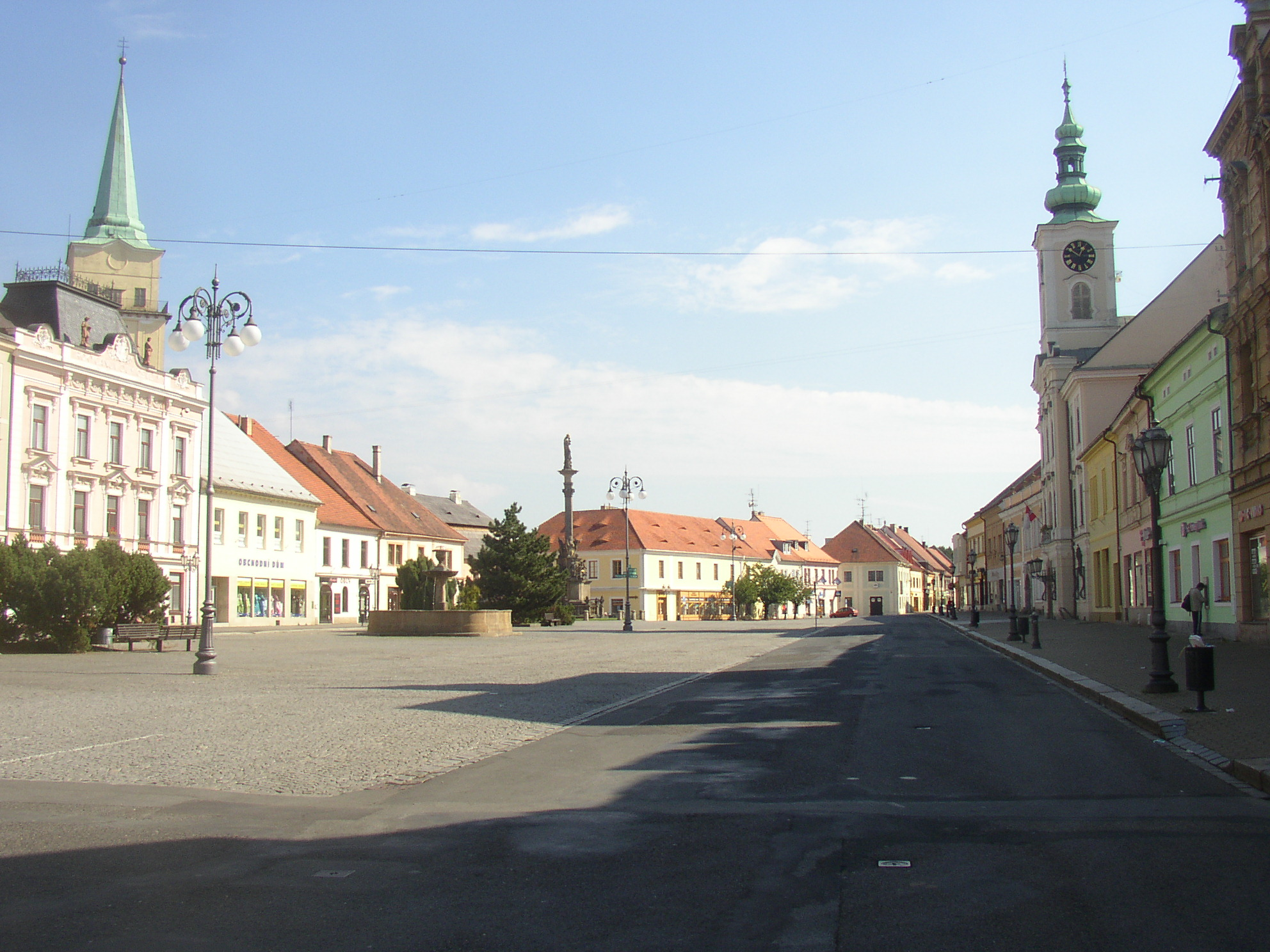 Masaryk Square in Rokycany, Czech Republic as seen from the west.